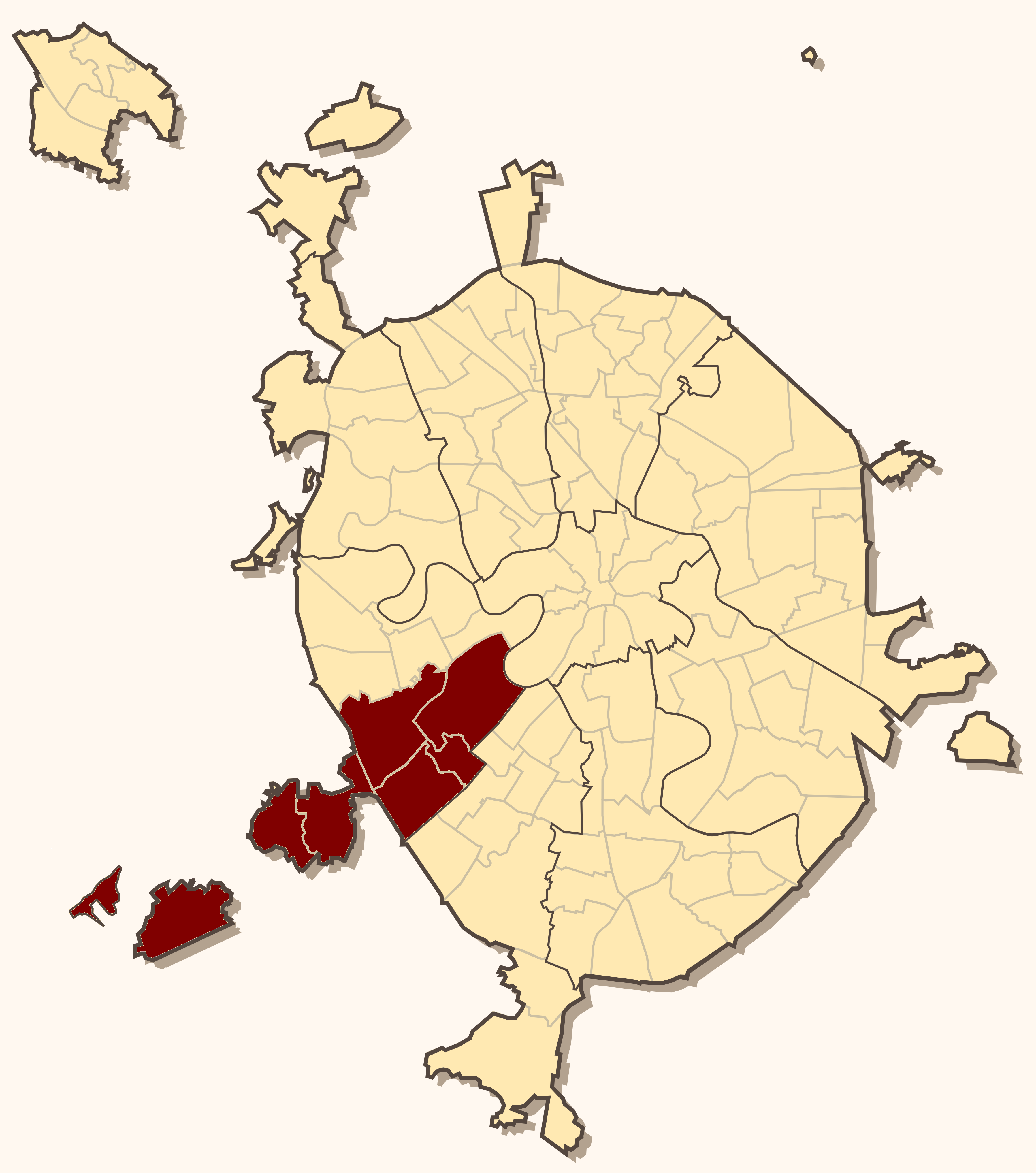 Map of Mikhaylovskoe Blagochinie of Moscow